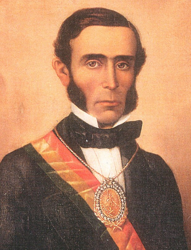 President of Bolivia José Maria Linares Lizarazu